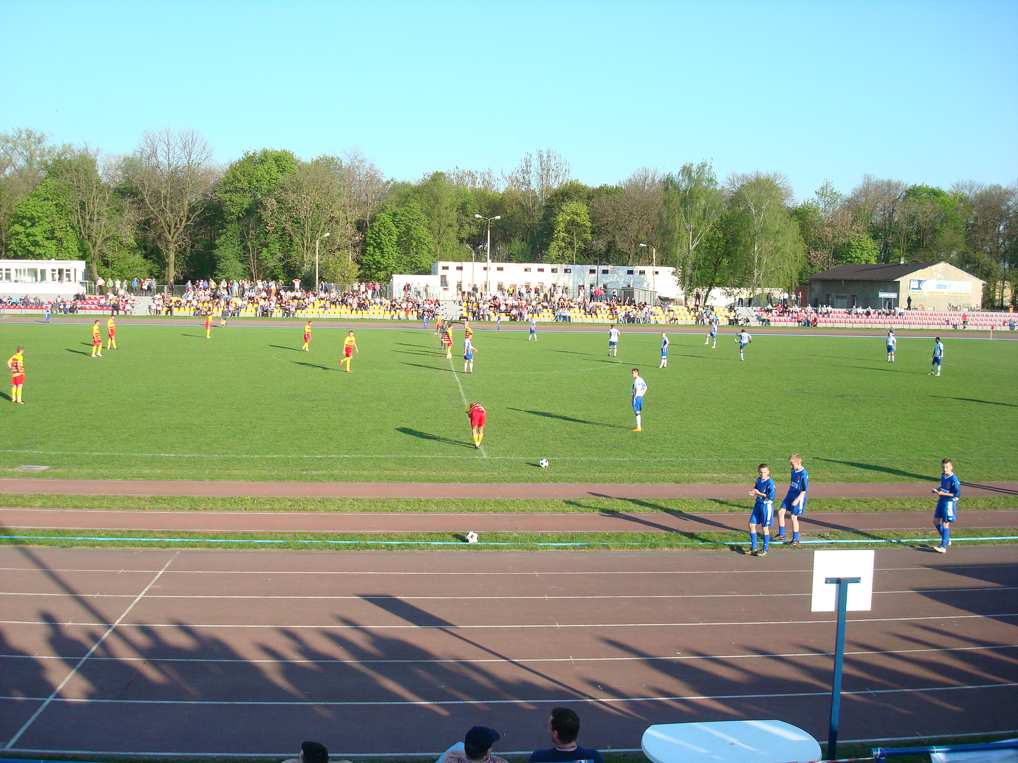 Match chase MKP Siedlce - bialystok Jagiellonia Match MKP Pogoń Siedlce - Jagiellonia Białystok